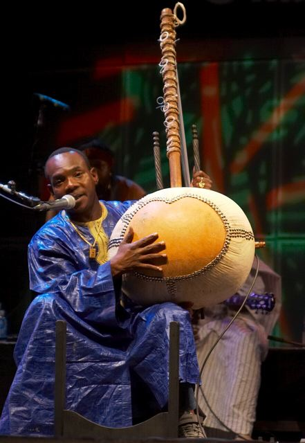 Legendary kora player Toumani Diabaté and the Symmetric Orchestra open Afrofest '07 in Toronto, Canada